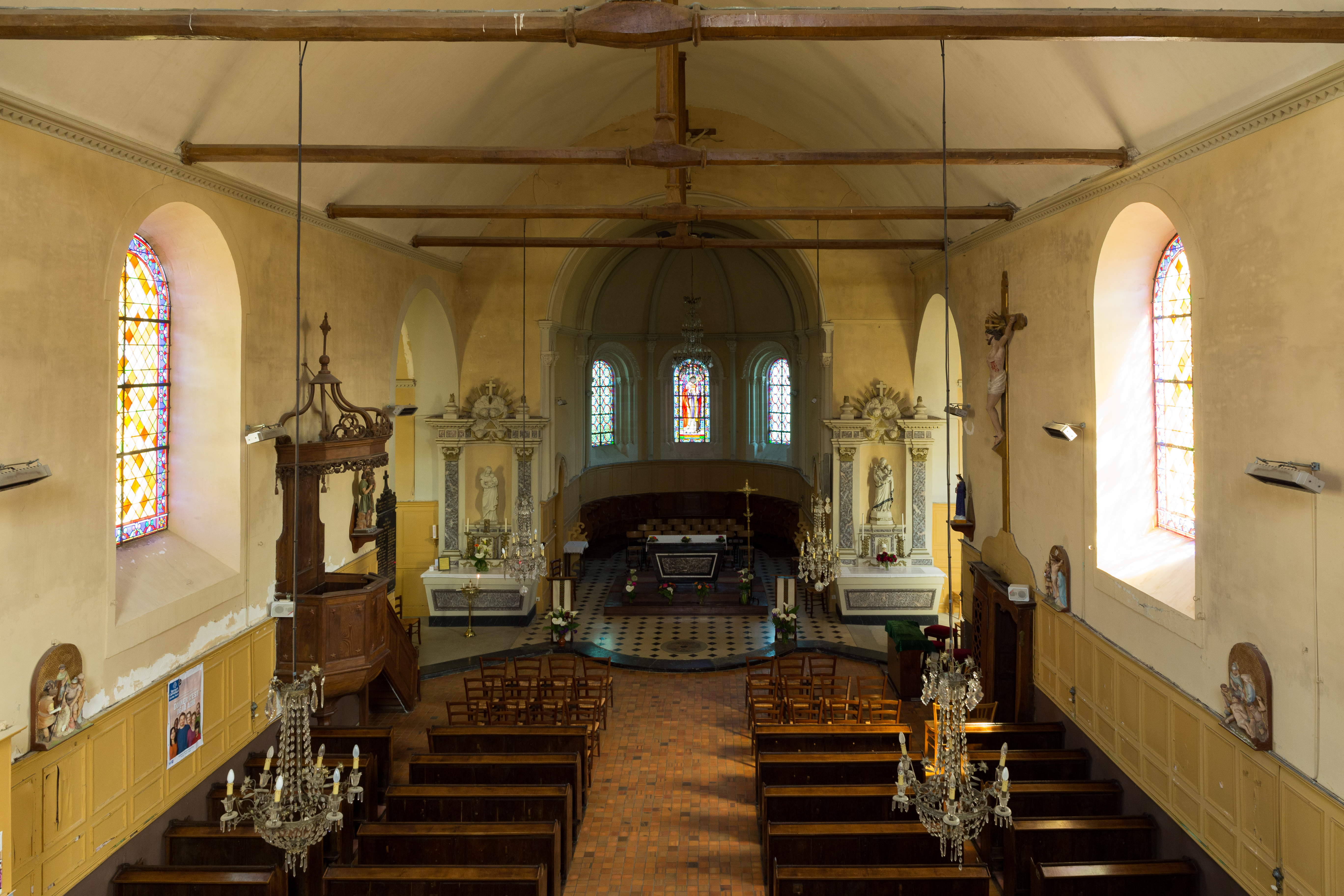 Church of Marigné-Peuton.